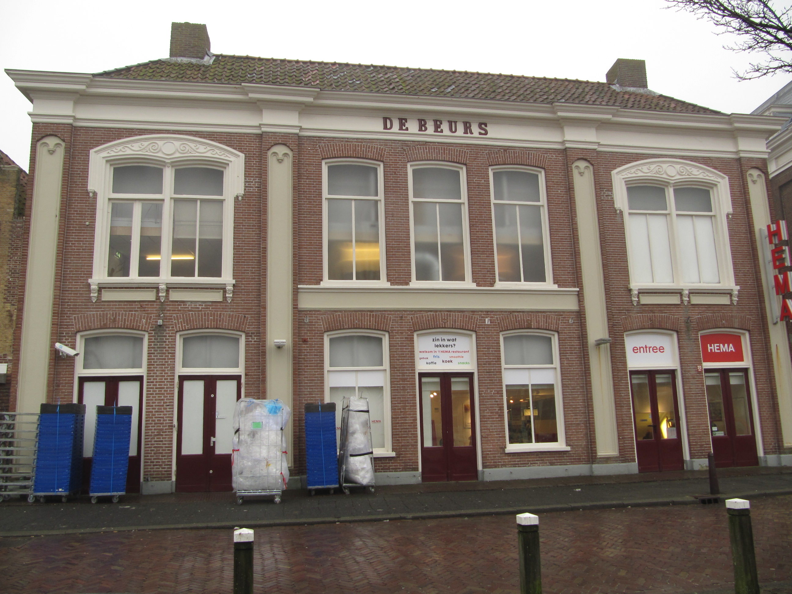 De Beurs